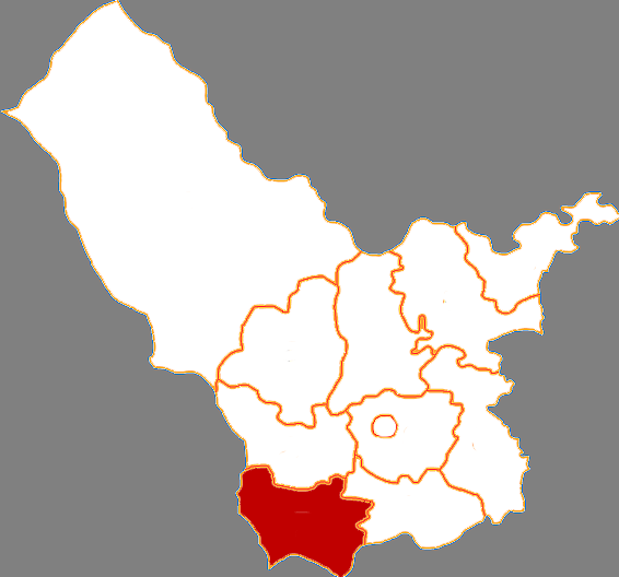 Locator map of Liangcheng County in Ulanqab City, Inner Mongolia, China